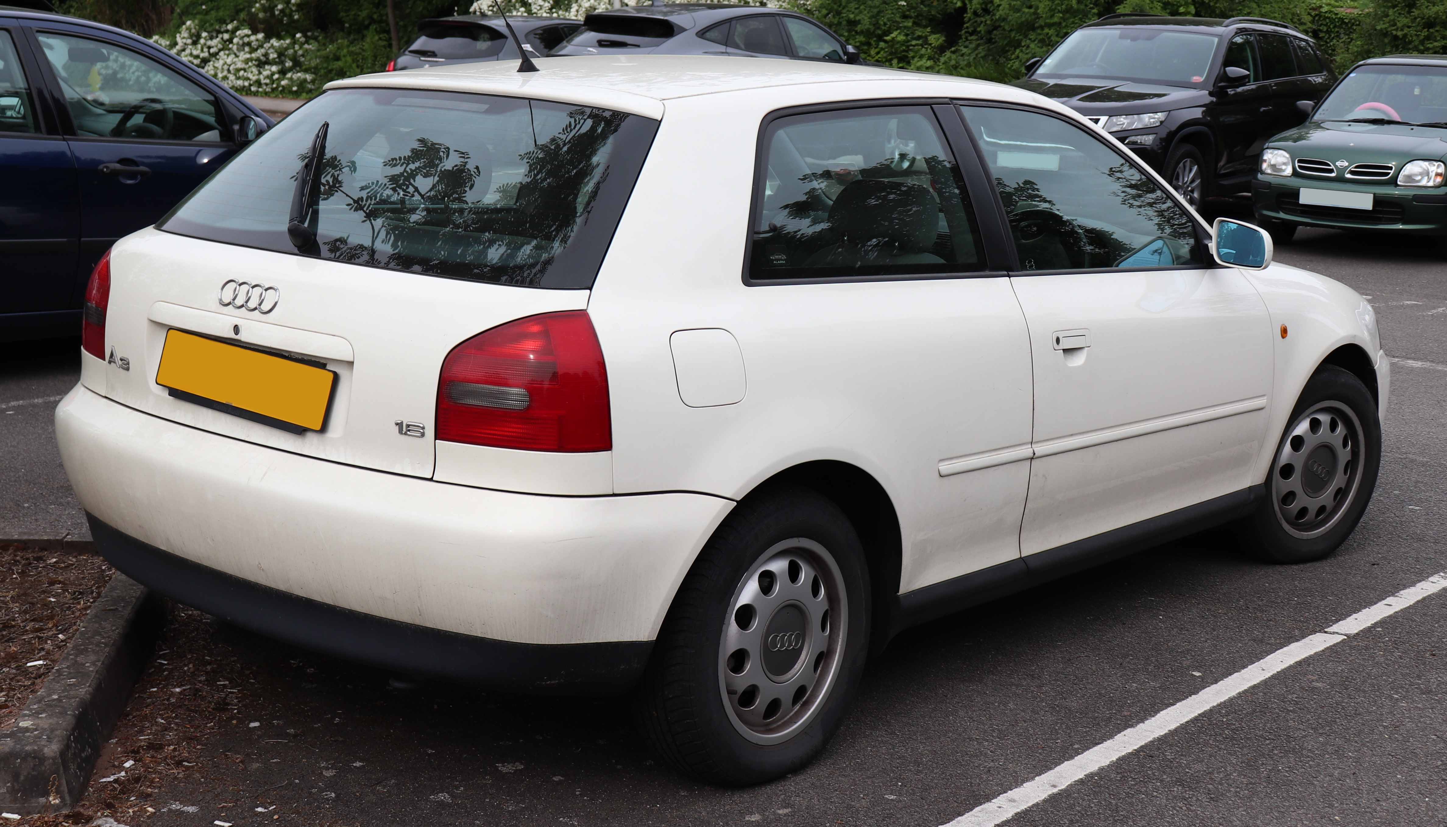 1997 Audi A3 1.6 Rear (Early P Reg) Taken in Leamington Spa